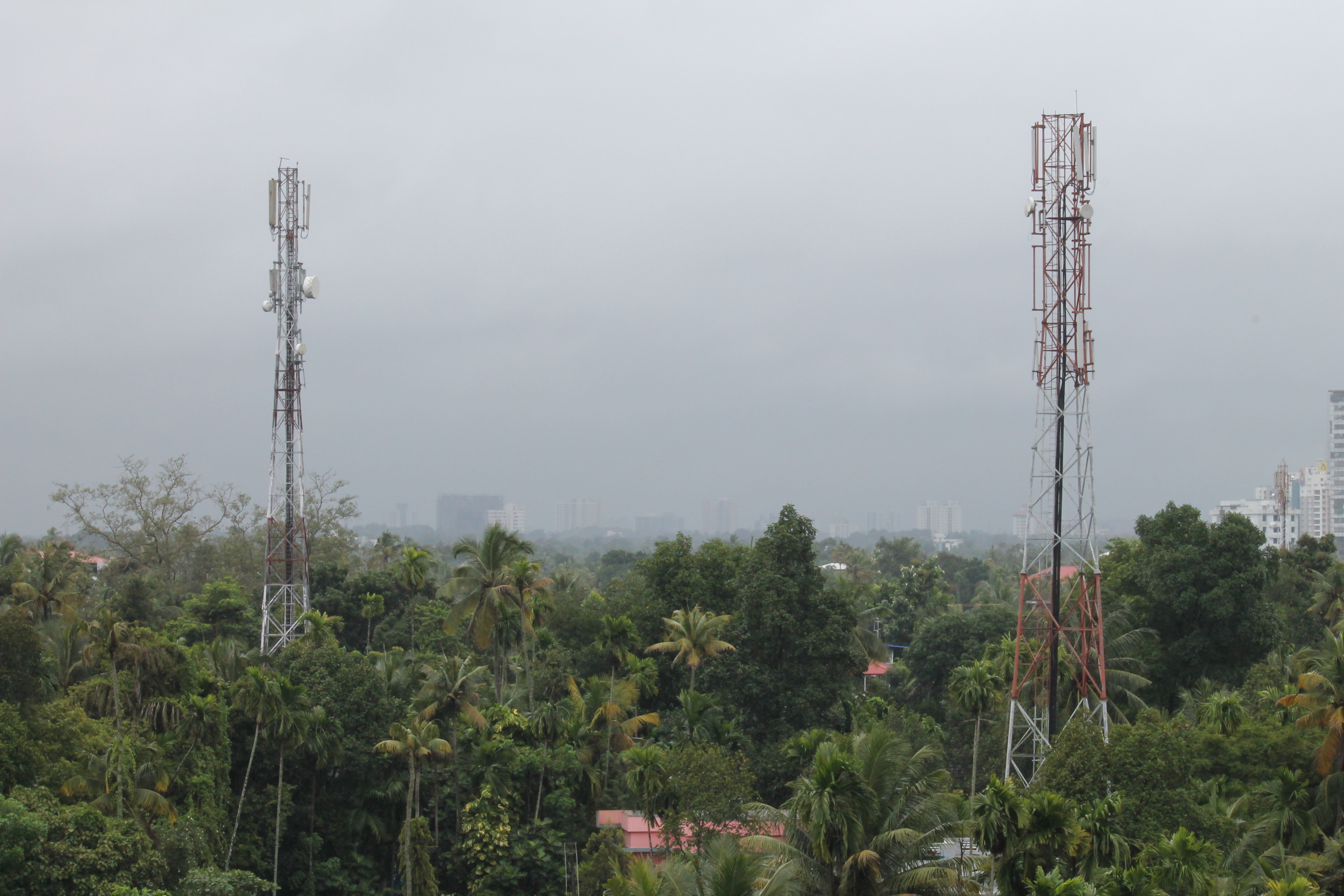 Two adjacent mobile towers - Kochi, Kerala, India.